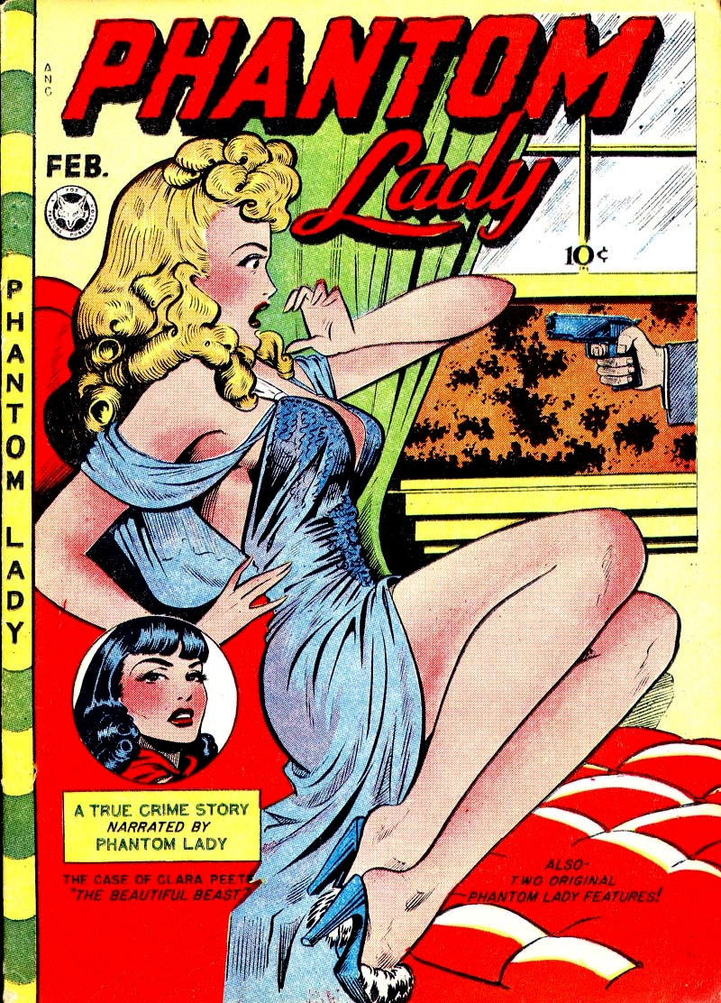 Cover of Phantom Lady #16